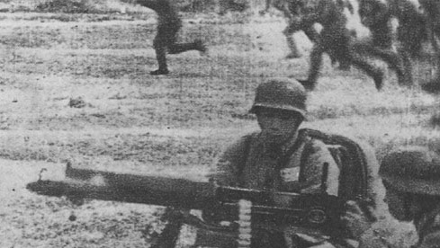 Chinese troops making a charge in Shanghai, 1937